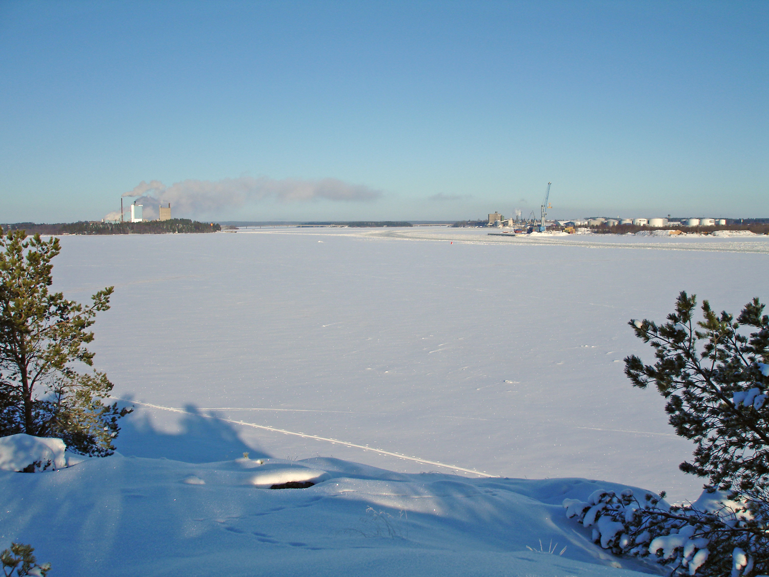 The sea between Obbola and Holmsund, outside the outlet of the river Umeälven. SCA's mill to the left, Umeå harbour to the right.